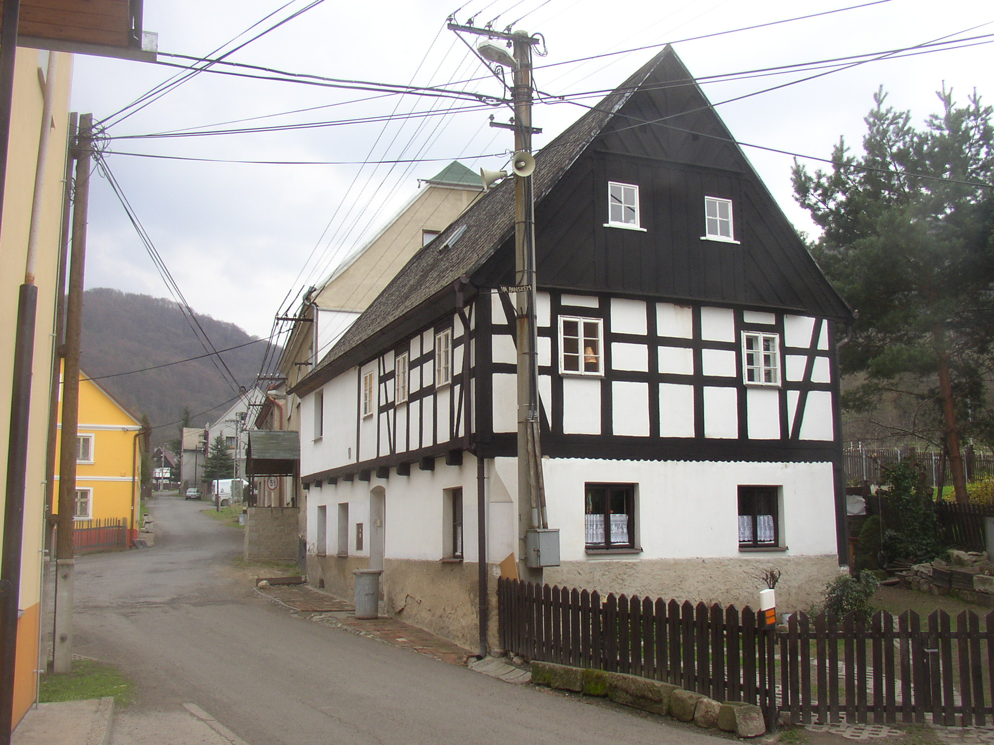 A timberframe house in Těchlovice (near Děčín), Czech Republic.